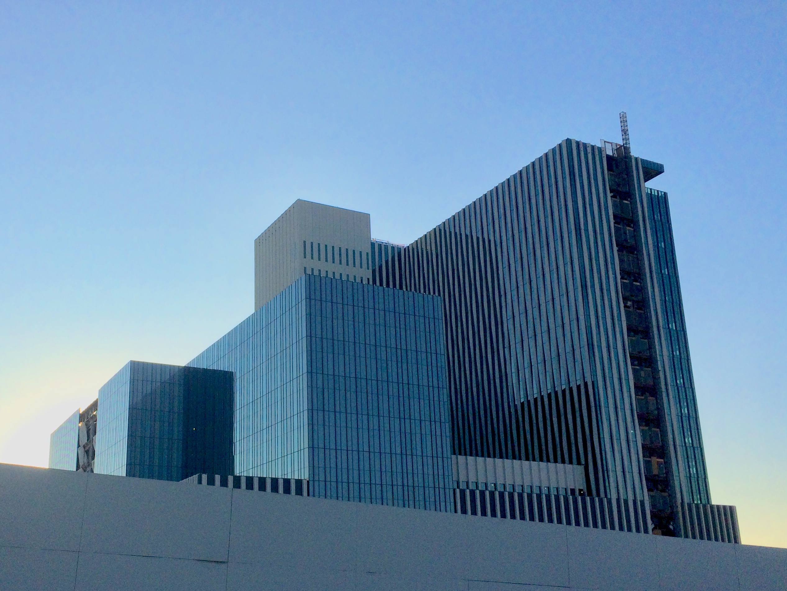 A photo of the northwest side of the under-construction LLUMC Seismic Upgrade building project. The photo has been cropped and retouched to reduce the amount of shadow. Photo is by me. The architectural work depicted in this photograph may be covered under United States copyright law (17 USC 120(a)), which states that architectural works completed after December 1, 1990 are protected. However, architectural copyright in the United States does not include the right to prevent the making, distributing, or public display of pictures, paintings, photographs, or other pictorial representations of the work. See COM:CRT/United States#Freedom of panorama for more information. This law only applies to architectural works (such as buildings or other structures) and not other forms of 3D or 2D artwork such as sculptures, paintings, or posters. Images of these artworks taken in the US must be deleted unless they are in the public domain, or their presence is incidental.